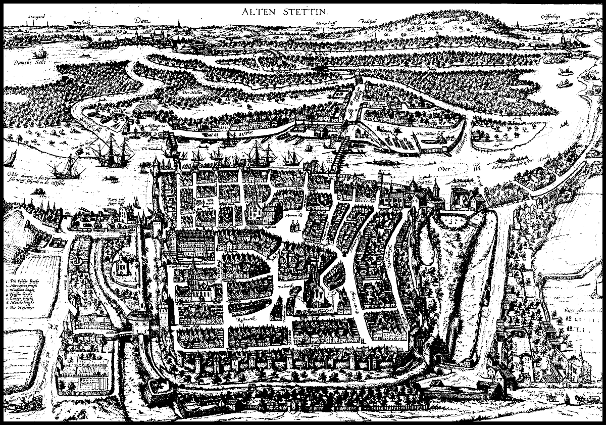 Bruin and Hogenberg: Alten Stettin 1575